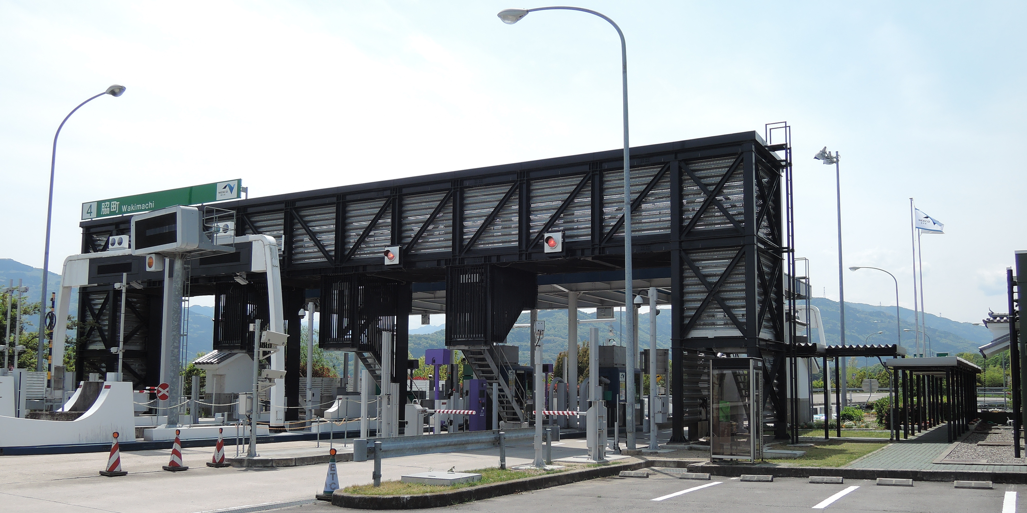 Wakimachi Inter Change,Tokushima prefecture,Japan